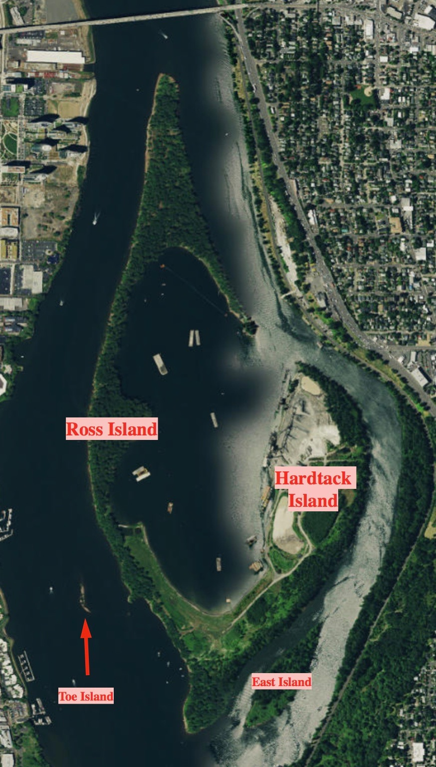 Satellite labelled map of Ross Island in Oregon